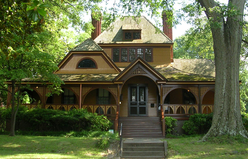 This is the front of the Wren's Nest House Museum, the historic home of Joel Chandler Harris, the journalist who penned the Uncle Remus tales.